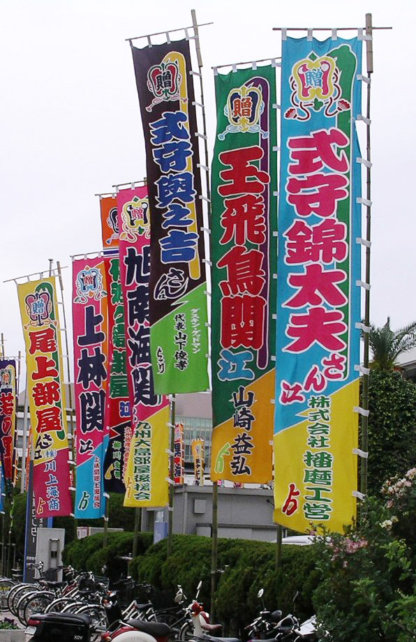 Sumo Nobori flags outside the Fukuoka International Centre, November 2006.